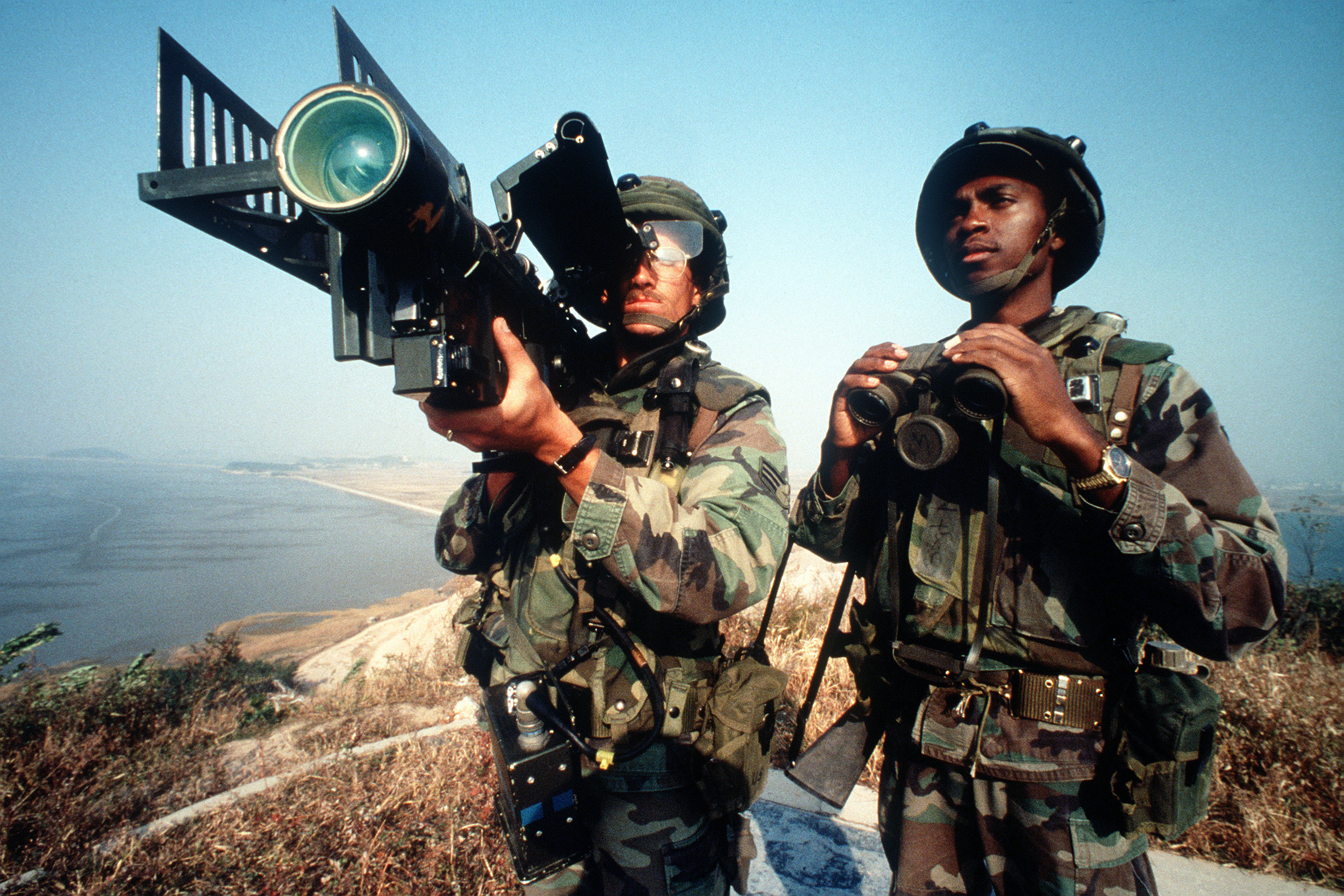 Two soldiers of a Stinger Missile Team from the 8th Security Police Squadron, Kunsan Air Base.